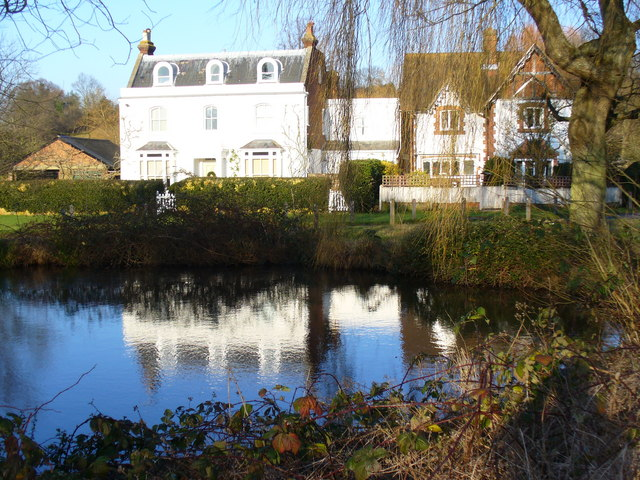 Shamley Green Pond The largest pond on the eastern village green - with impressive old houses reflected on the water.